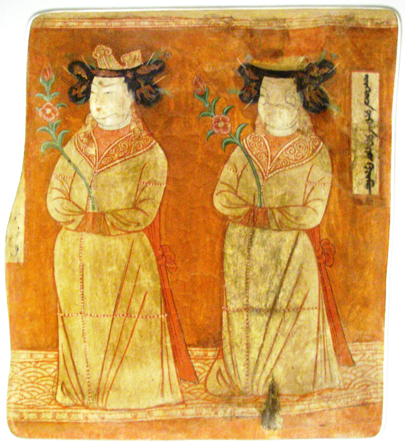 Uyghur Princesses. Bezeklik, Cave 9, 9-12th century CE, wall painting, 66 x 57 cm. Located at the Museum für Indische Kunst, Berlin-Dahlem.